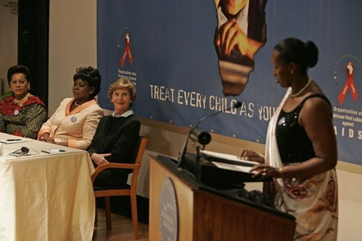 Jeannette Kagame, the First Lady of Rwanda and President of the Organization of African First Ladies Against HIV/AIDS, addresses the group in New York on Thursday, Sept. 15, 2005.